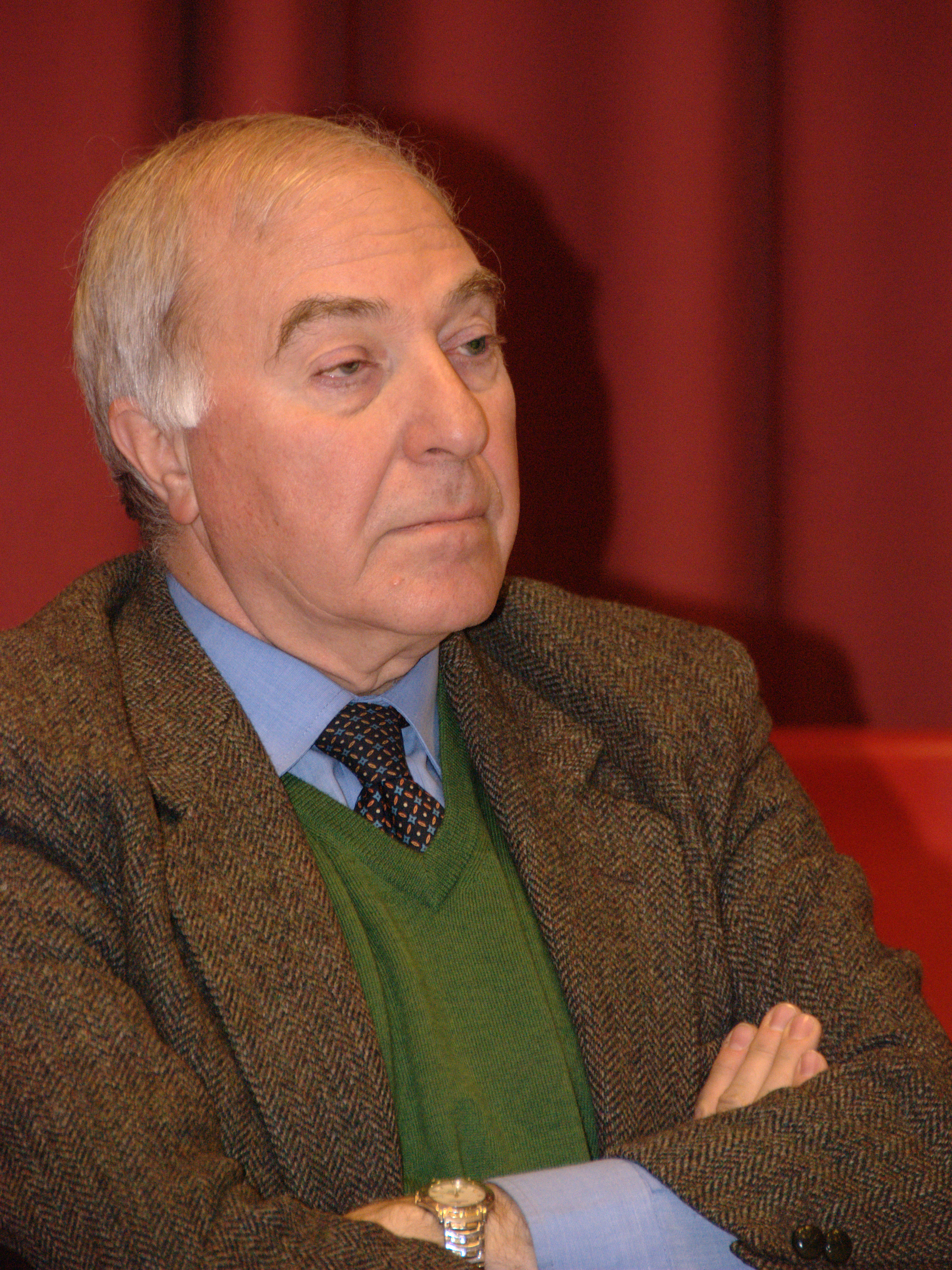 Mauro Politi, professor of international law at the University of Trento and former judge International Criminal Court, during a conference organized by Soroptimist International Club Trento.